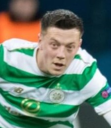 Callum McGregor